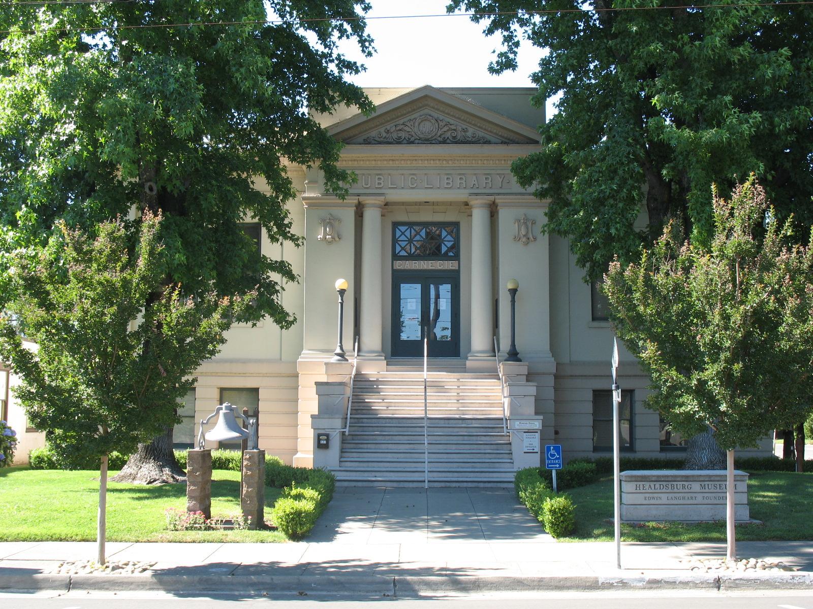 National Register of Historic Places listings in Sonoma County, California. Healdsburg Carnegie Library, 221 Matheson St., Healdsburg, California. Now the Healdsburg Museum.